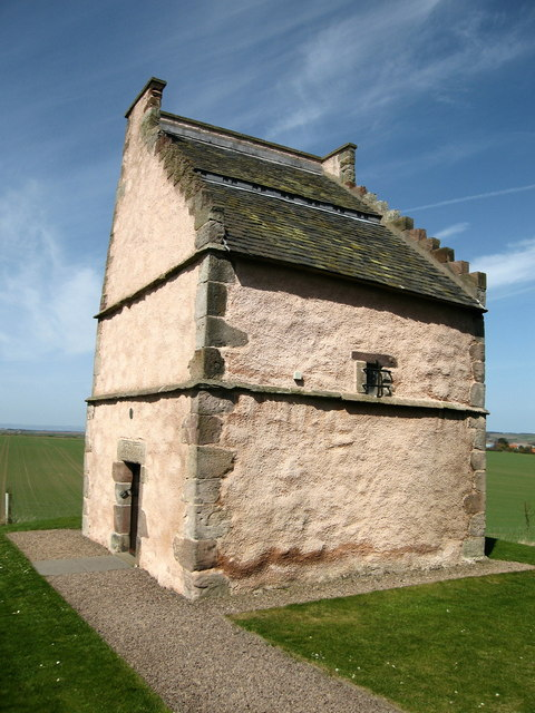 The Heritage Centre at Athelstaneford, building originally a Doocot, built 1583